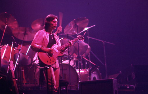 Steve Hackett MLG, Toronto, June 3, 1977